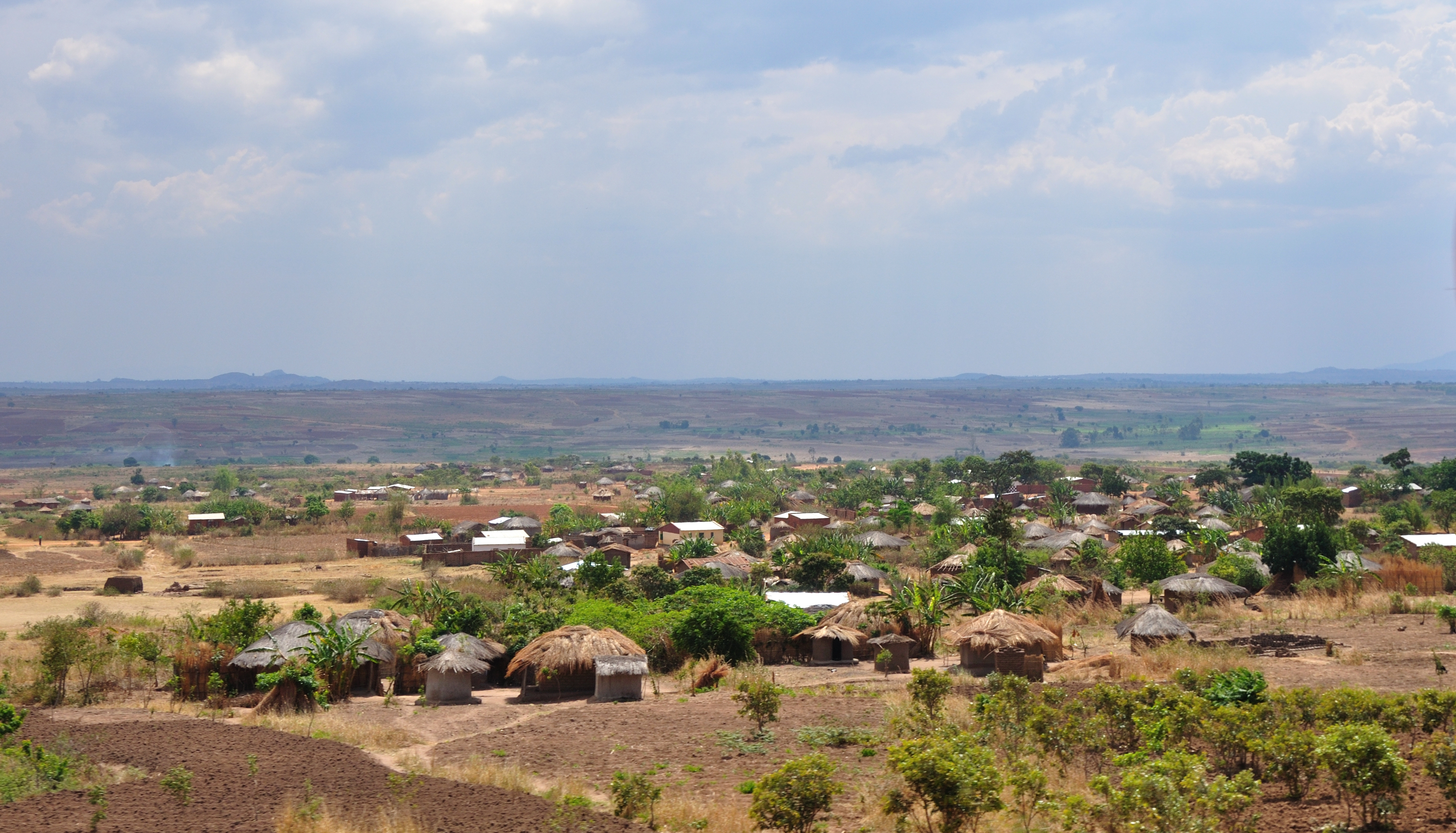 Malawi, road side impressions along the M1 between Blantyre and Lilongwe